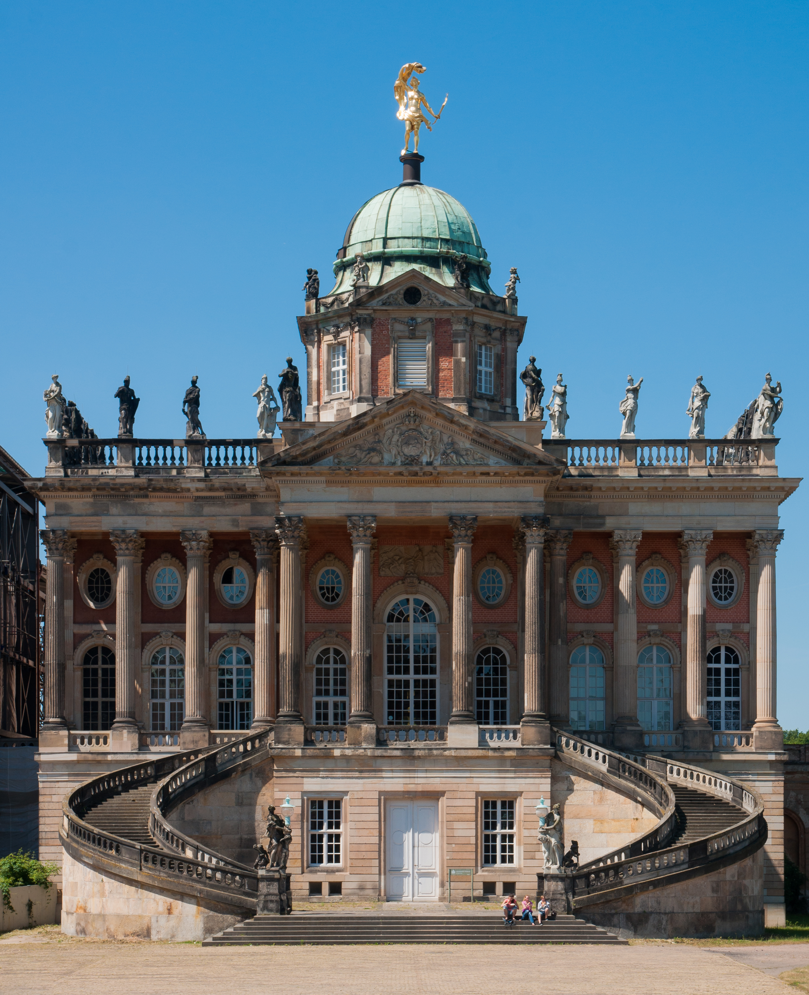 Potsdam, Brandenburg, Germany: University Library, Branch Neues Palais Haus 11